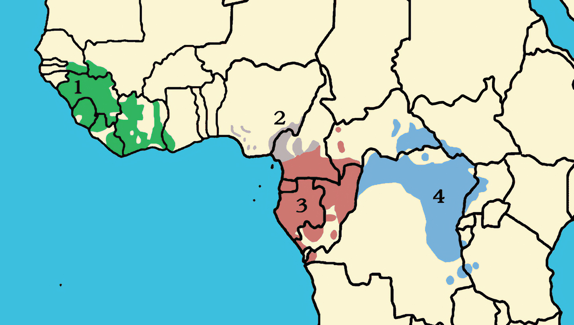 Pan troglodytes subespecies and distribution 1. Pan troglodytes verus 2. P. t. vellerosus 3. P. t. troglodytes 4. P. t. schweinfurthii